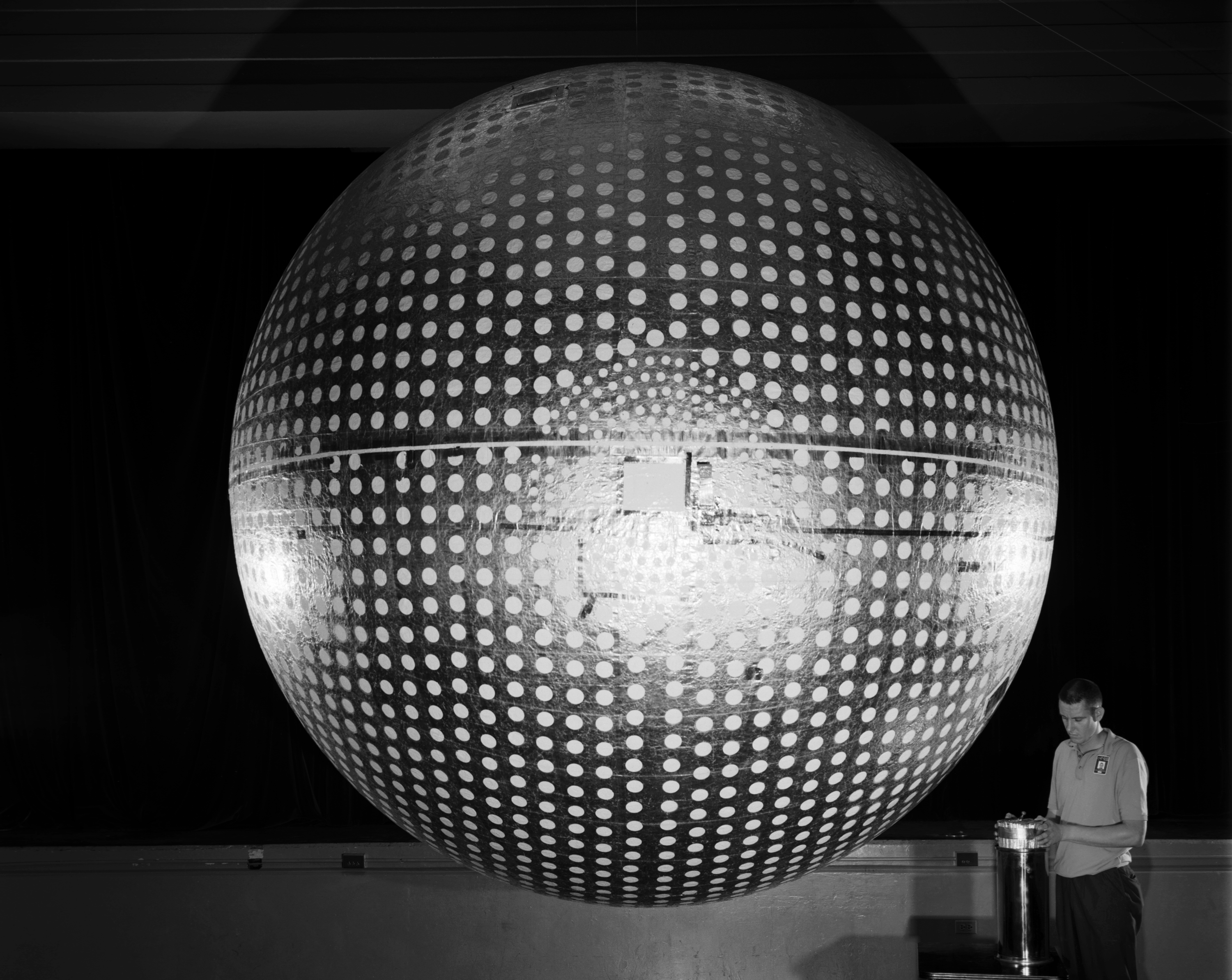 This satellite, Explorer 24, was a 12-foot-diameter inflatable sphere developed by an engineering team at Langley. It provided information on complex solar radiation/air-density relationships in the upper atmosphere.